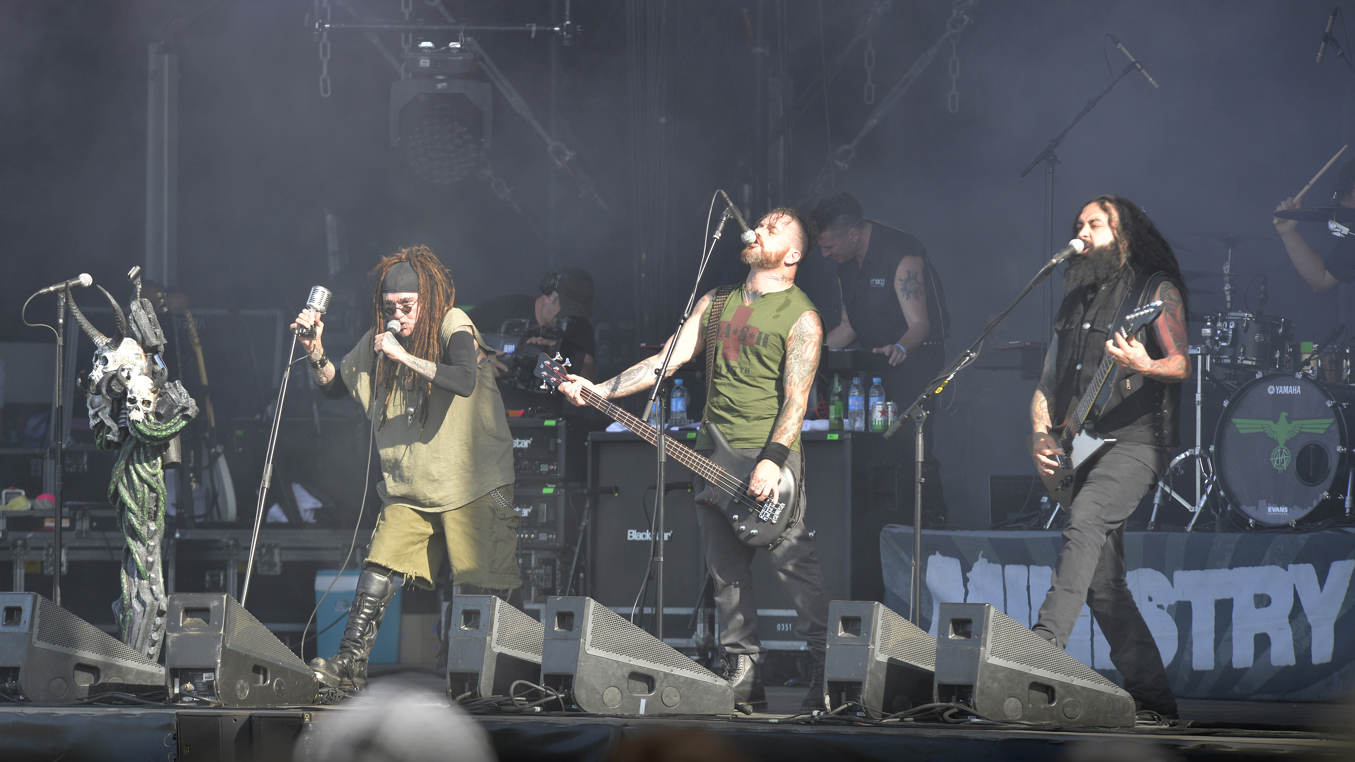 Ministry show at 2017 Hellfest, France.